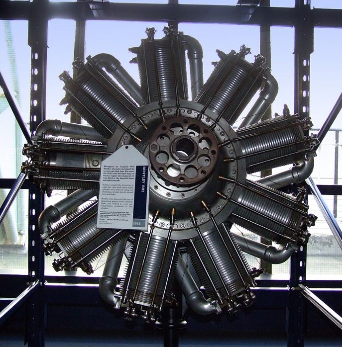 BR2 Rotary engine . Powerplant for the famed Sopwith Camel WW1 fighter er sorry Scout! aeroplane.